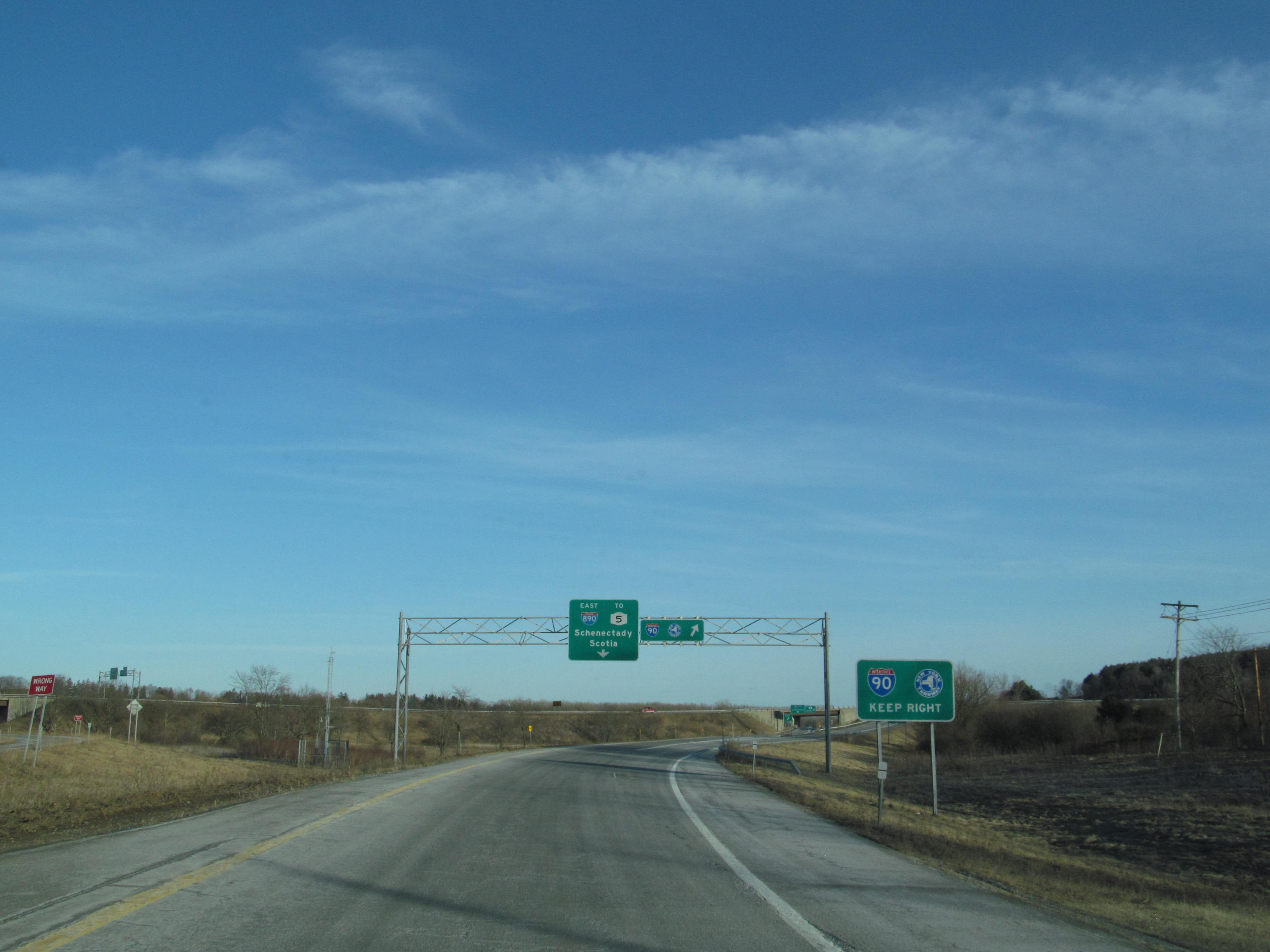 New York State Route 5S approaching its easterm terminus